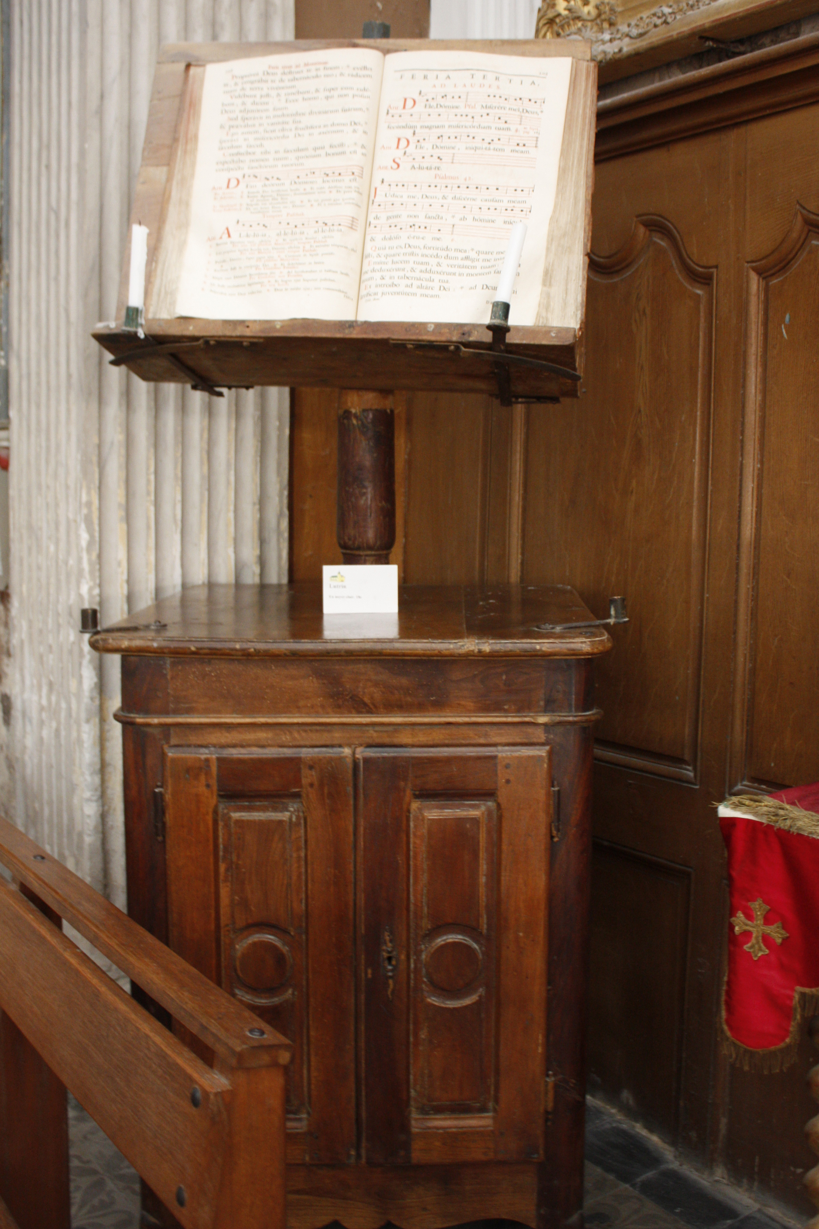 Lectern (Late 18th century).